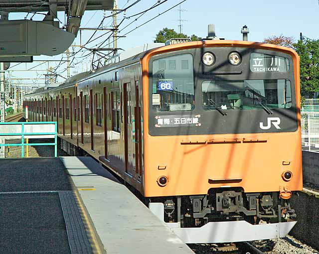 Ome Line, JR East Japan Railways, Tokyo, Japan